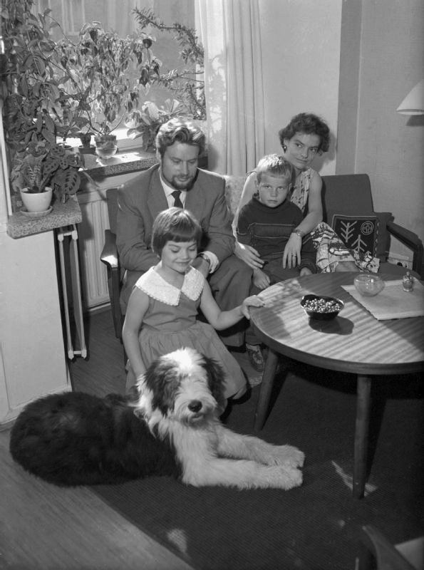 Photograph of the Finnish composer Usko Meriläinen (1930–2004) and choreographer Ruth Matso (1931–2020) with their children, actor Lena Meriläinen and producer Ari Meriläinen